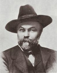 Calistrat Hogaş (1847-1917)